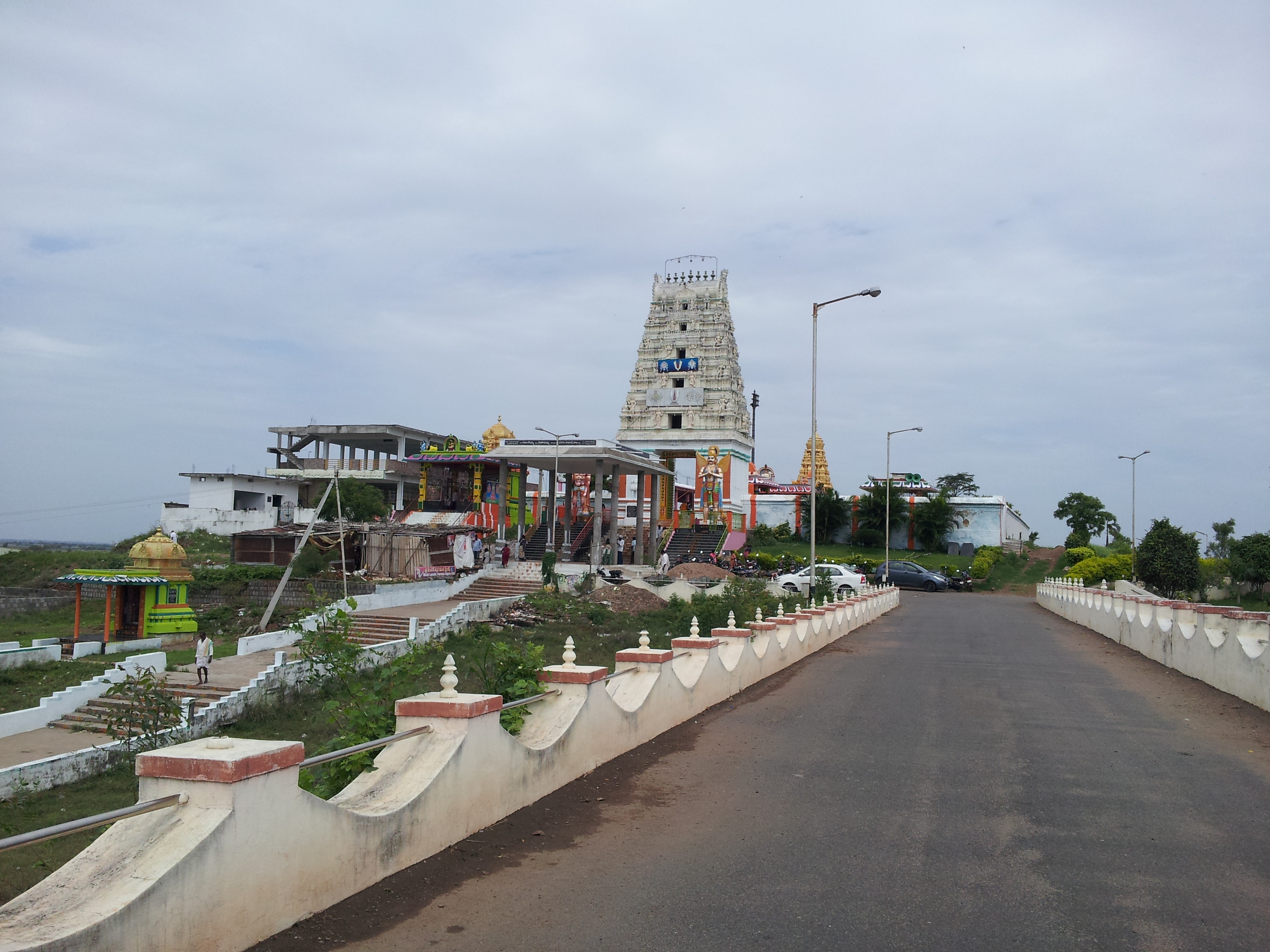 venkateswara swamy temple, Mallavaram